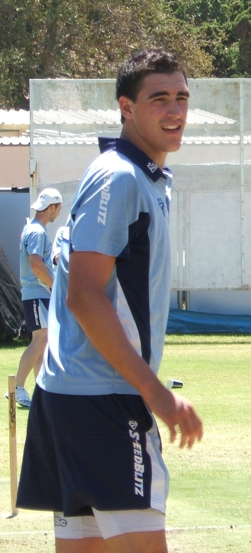 Named person engaging in named action at Adelaide Oval nets/training ground